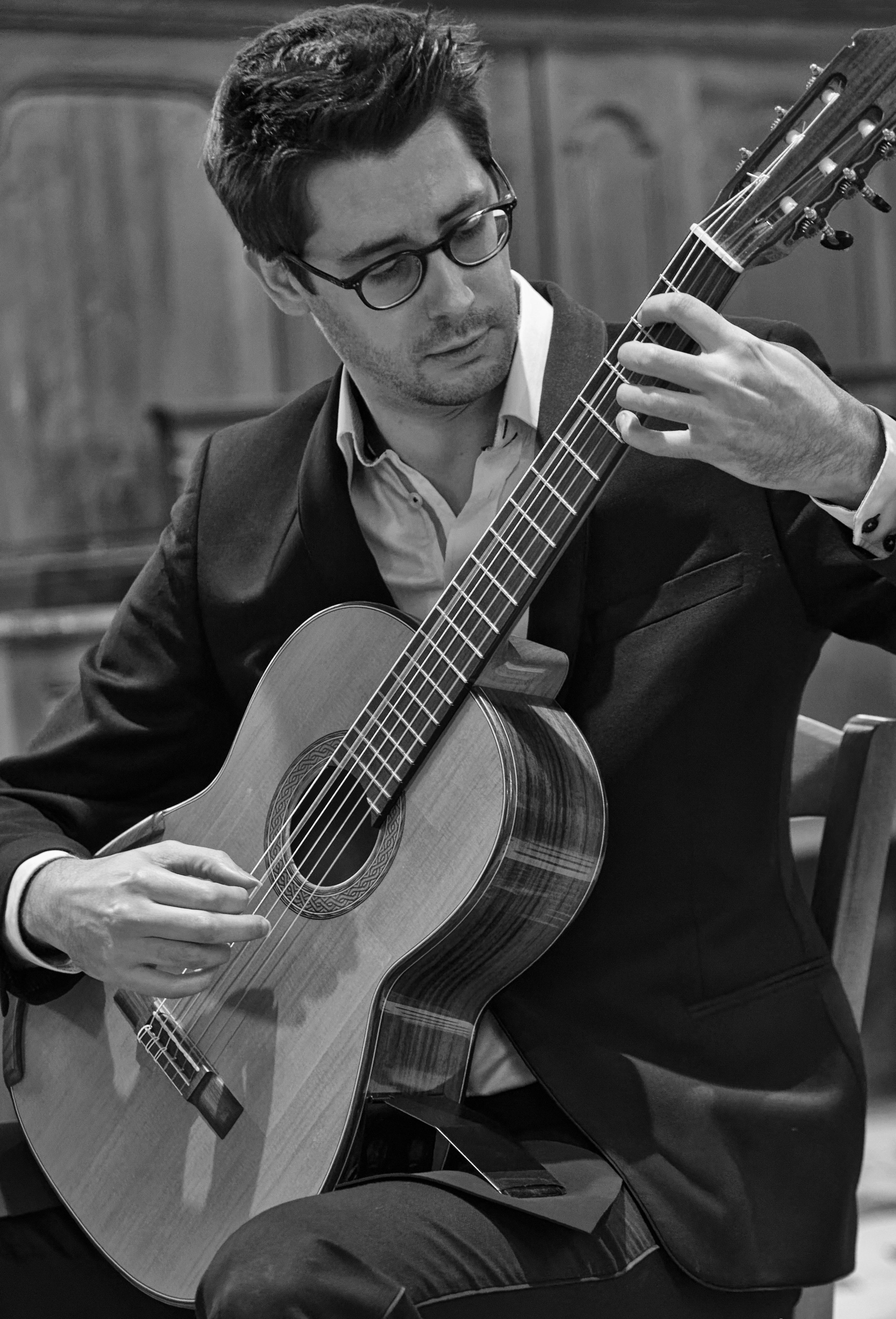 Augustin Pesnon during one of his concerts at Évreux, France.